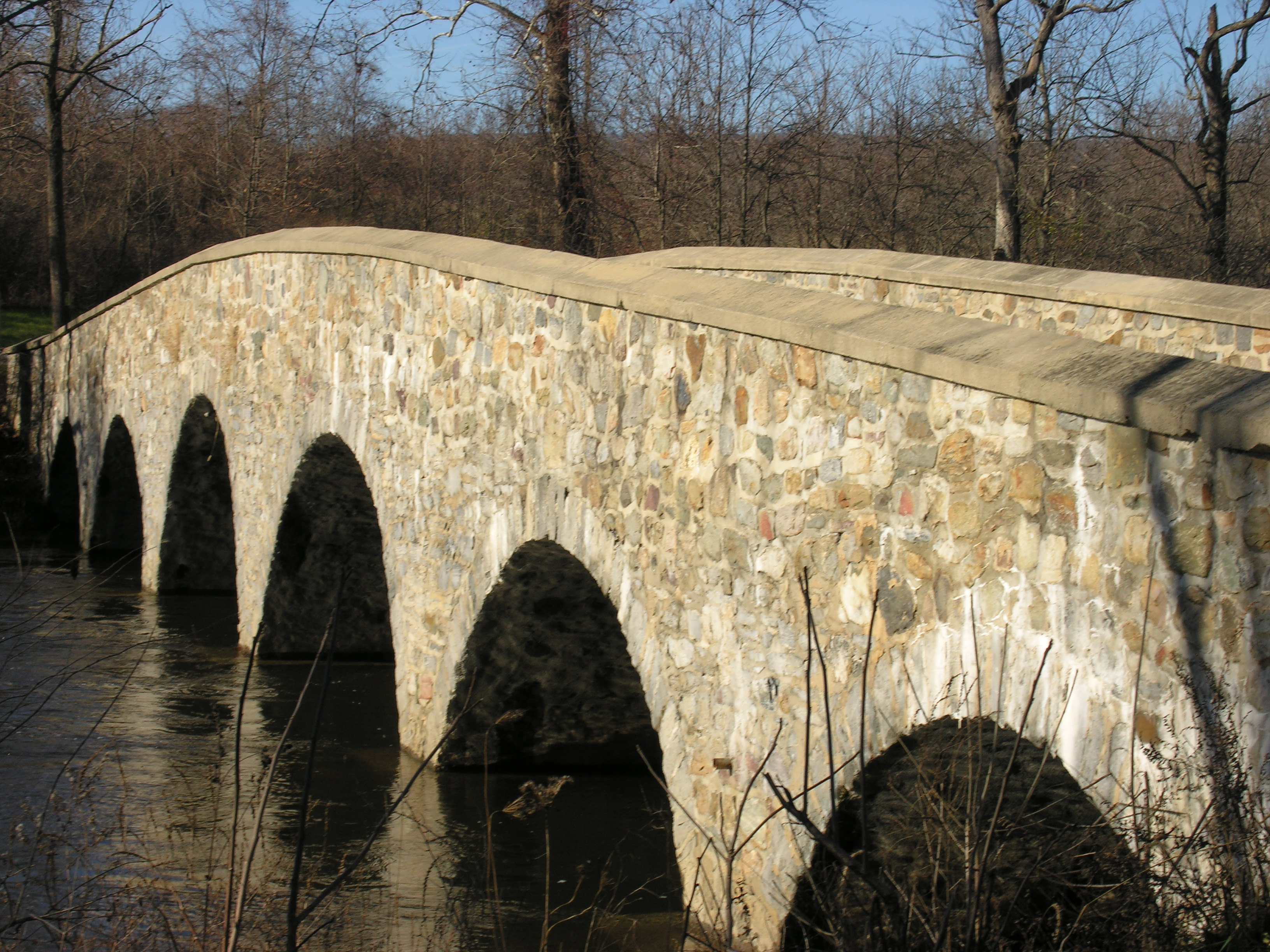 The Brugler Road bridge crosses the bucolic Paulins Kill. Knowlton, NJ.